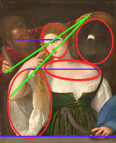 Red, oval and curved lines. In blue, horizontal lines. In green, oblique lines.